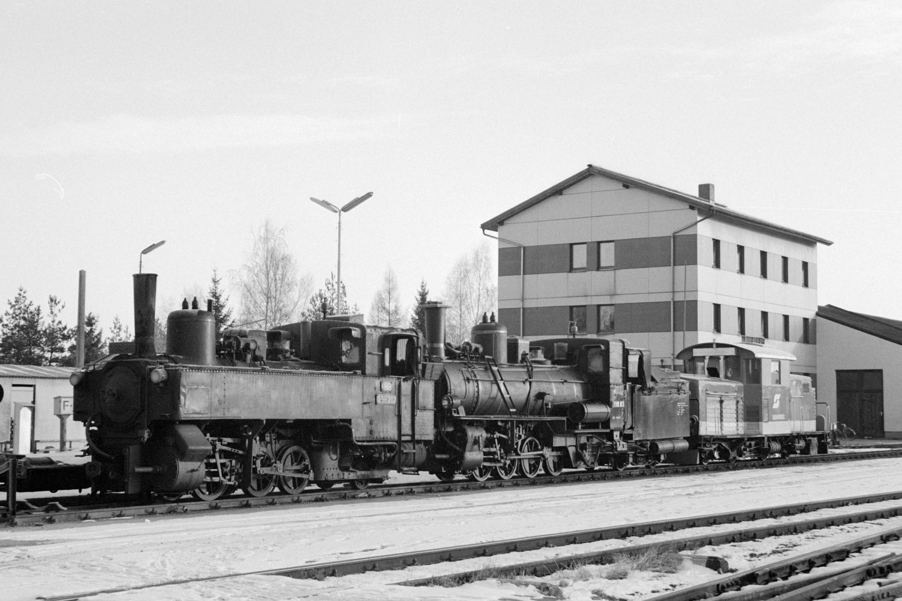 ÖBB narrow gauge locomotives at Gmünd engine shed on the Waldviertel Narrow Gauge Railways, Lower Austria: steam engines 298.207 and 399.03 and diesel engine 2091 002